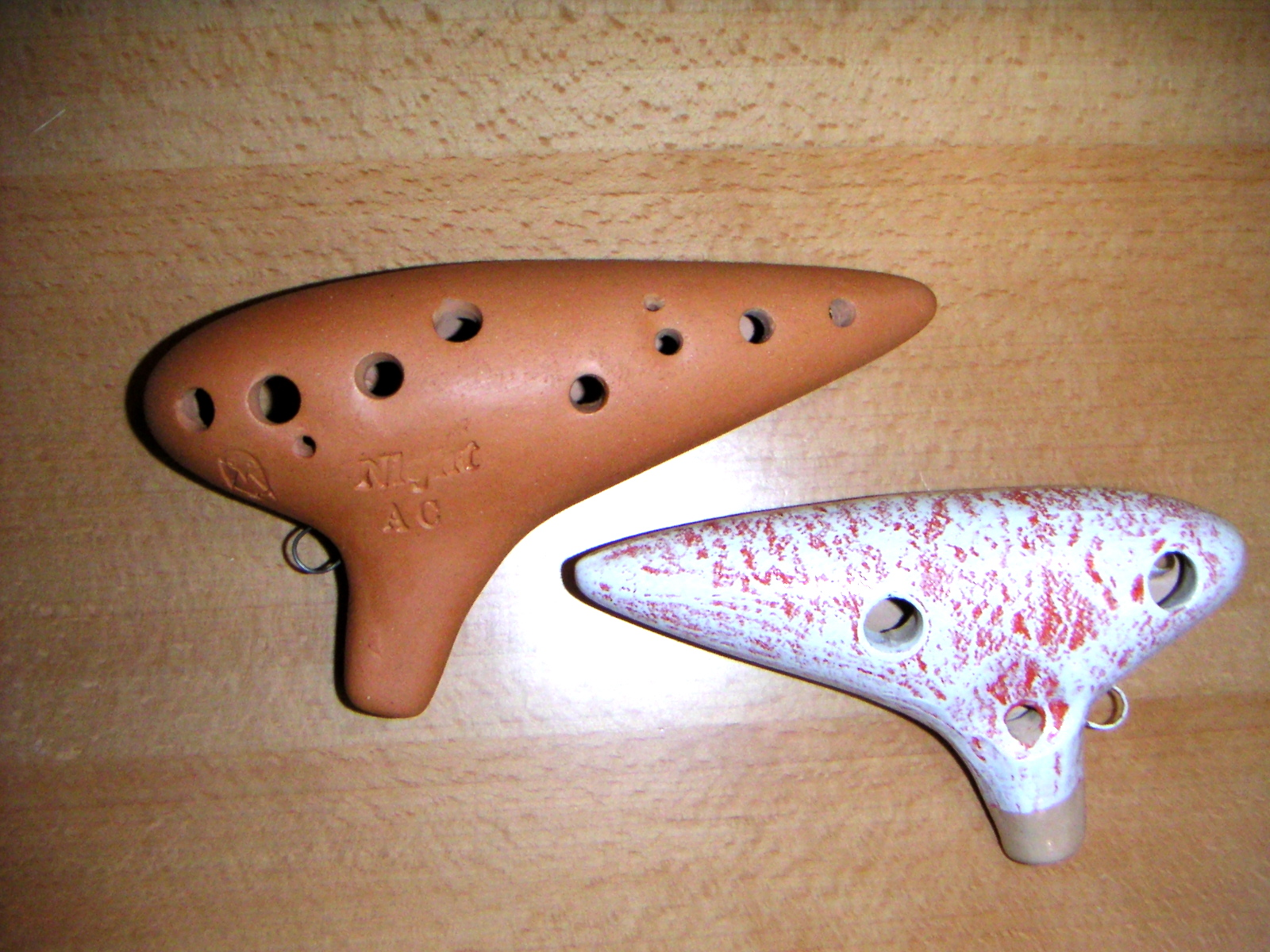 Front and back of Alto C and Soprano F Cocarinas